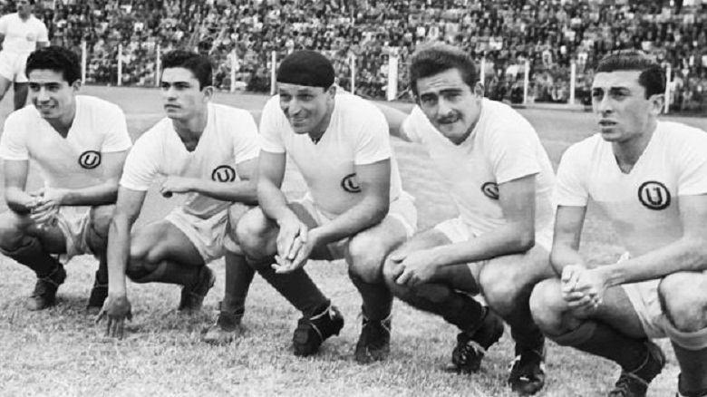 Teodoro " Lolo" Fernandez, Alberto "Toto" Terry and other historical U.